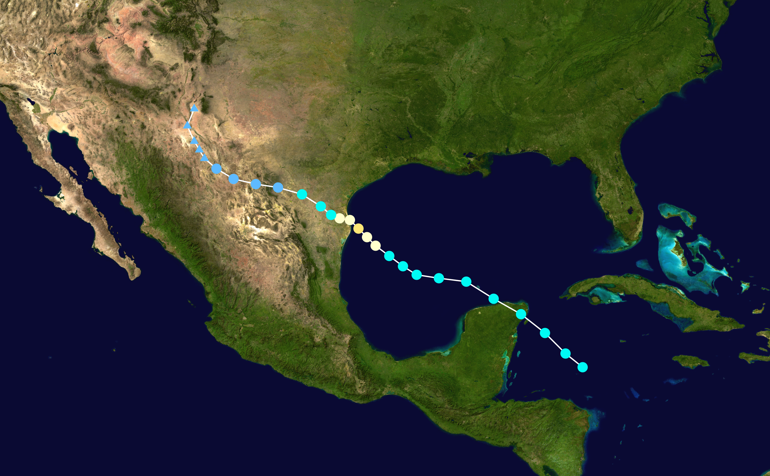 Track map of Hurricane Dolly of the 2008 Atlantic hurricane season. The points show the location of the storm at 6-hour intervals. The colour represents the storm's maximum sustained wind speeds as classified in the Saffir–Simpson scale (see below), and the shape of the data points represent the nature of the storm, according to the legend below. Saffir–Simpson scale Tropical depression≤38 mph≤62 km/h Category 3111–129 mph178–208 km/h Tropical storm39–73 mph63–118 km/h Category 4130–156 mph209–251 km/h Category 174–95 mph119–153 km/h Category 5≥157 mph≥252 km/h Category 296–110 mph154–177 km/h Unknown Storm type Tropical cyclone Subtropical cyclone Extratropical cyclone / Remnant low / Tropical disturbance / Monsoon depression